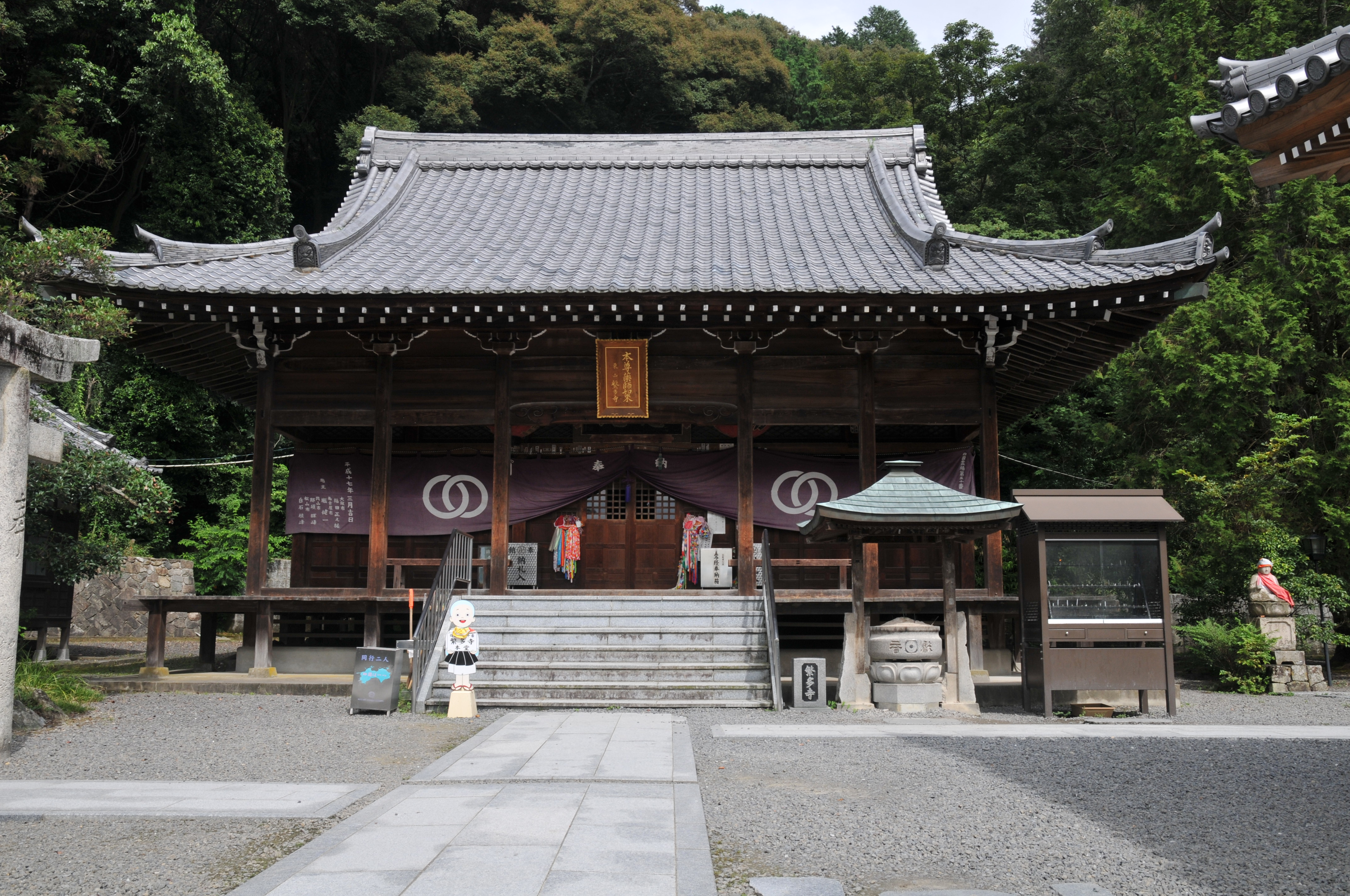 Main temple, Hanta-ji